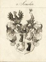 Coat of Arms on the Finnish-Lithuanian von Simolin family